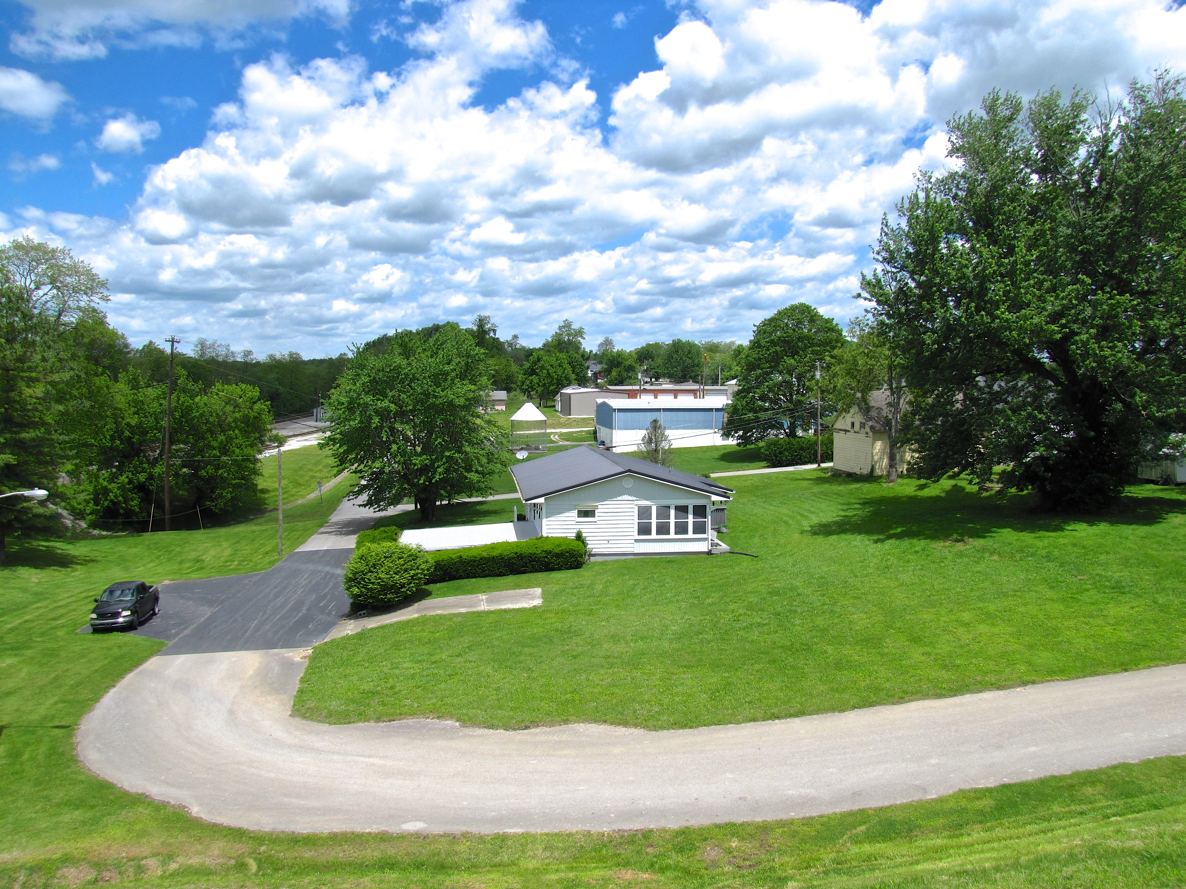 The intersection of 5th Street and Depot Street in Eubank, Kentucky, United States, viewed from Kentucky Route 70.